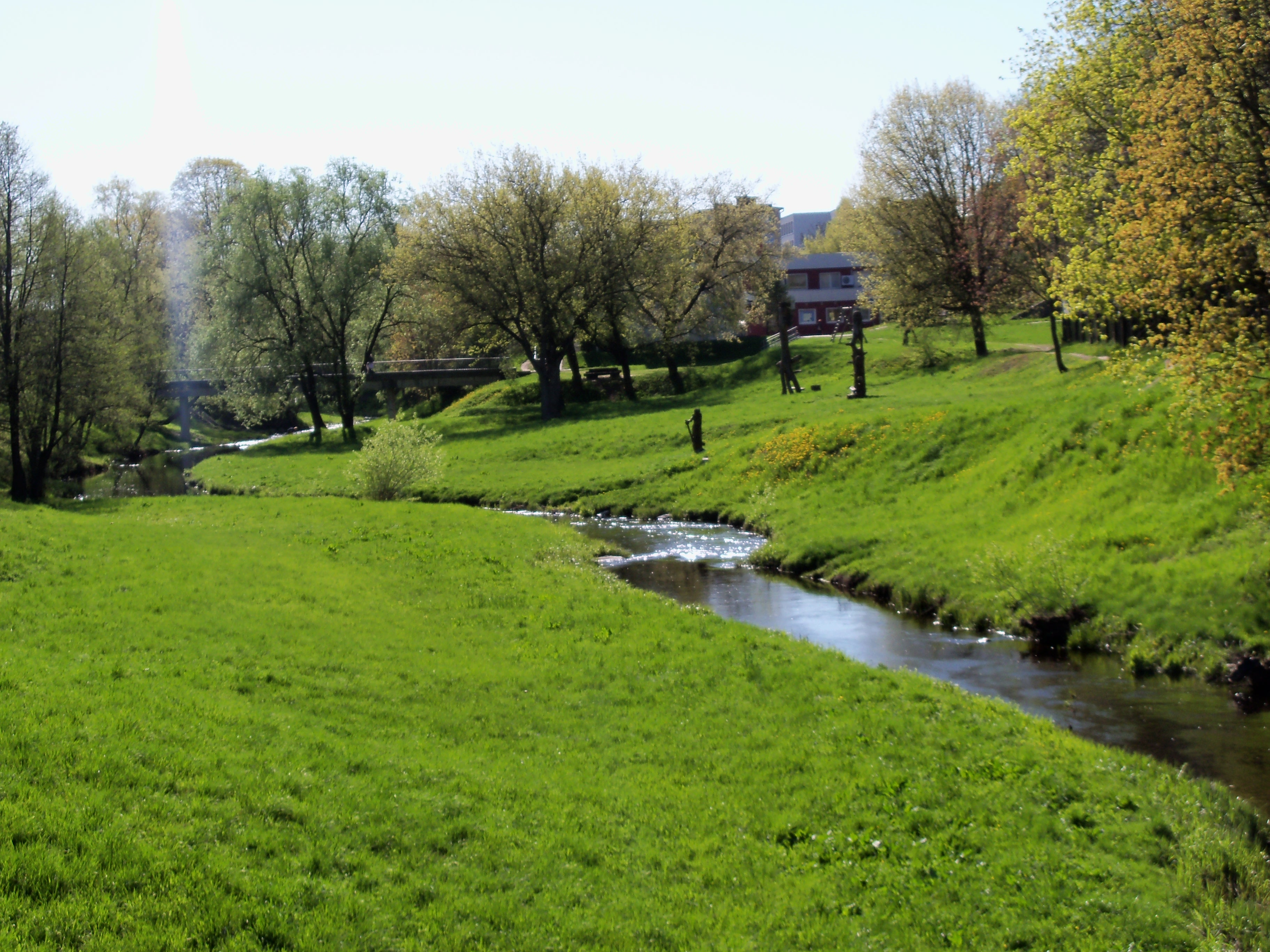 At Kupa park in Kupiškis, Lithuania.